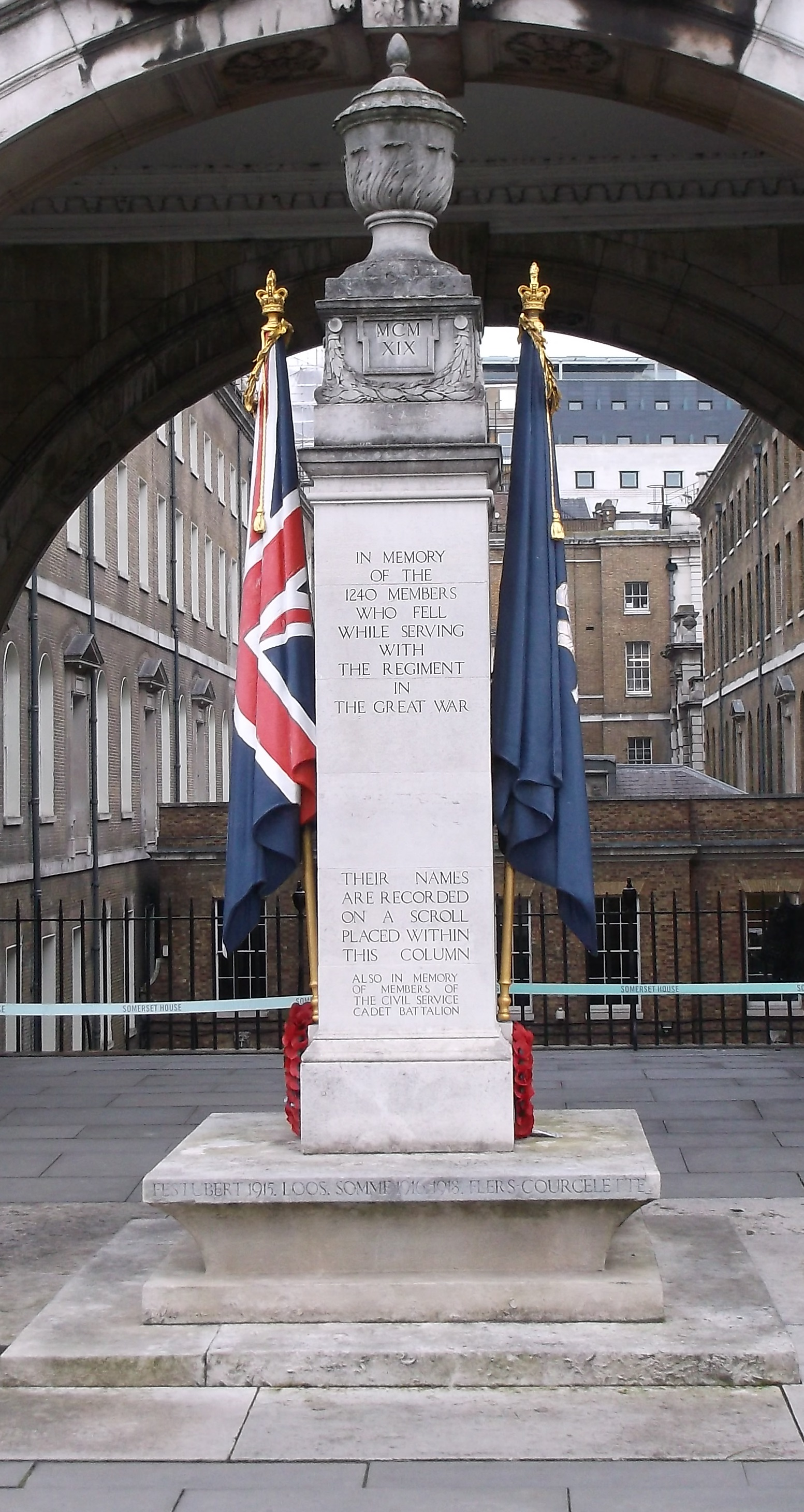 Civil Service Rifles Memorial by Edwin Lutyens at Somerset House, Strand, London